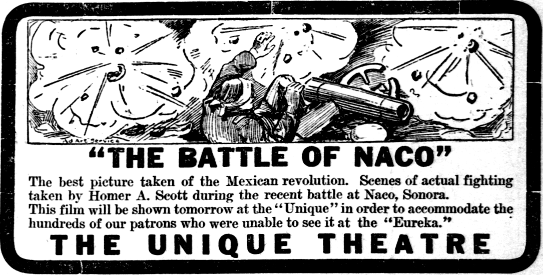 Newspaper advertisement for "The Battle of Naco", Mexican Revolution documentary silent film photographed by Homer Scott.